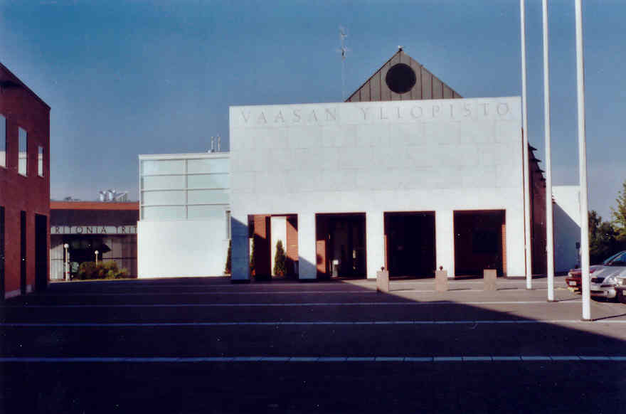 The University of Vaasa in Vaasa, Finland.